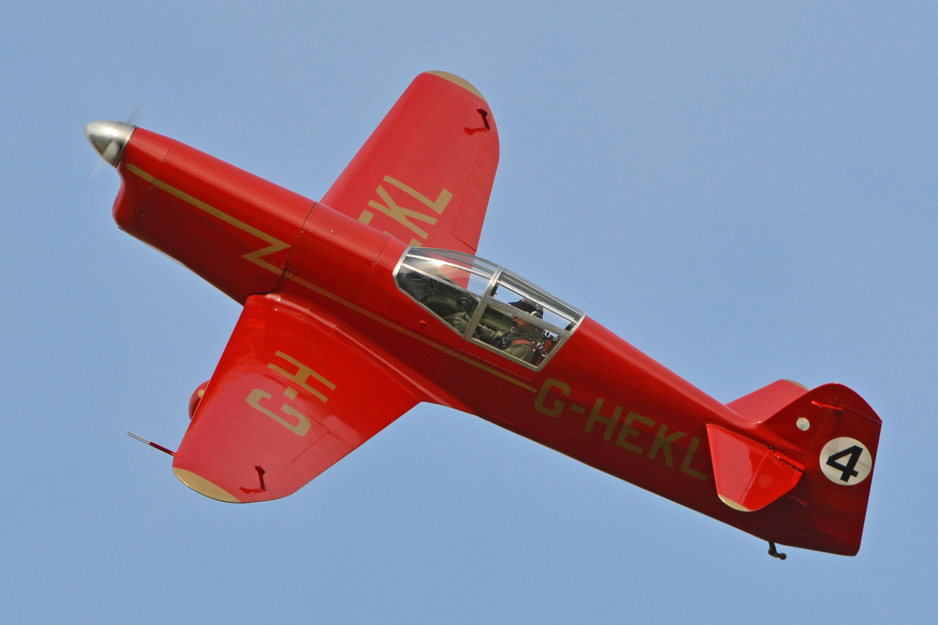 c/n PFA/013-14759. Built 2013. Faithful replica based on Mew Gull 'G-AEKL' and appropriately registered 'G-HEKL'. Seen displaying at the 'Best of British' flying evening. Old Warden. 18-7-2015.